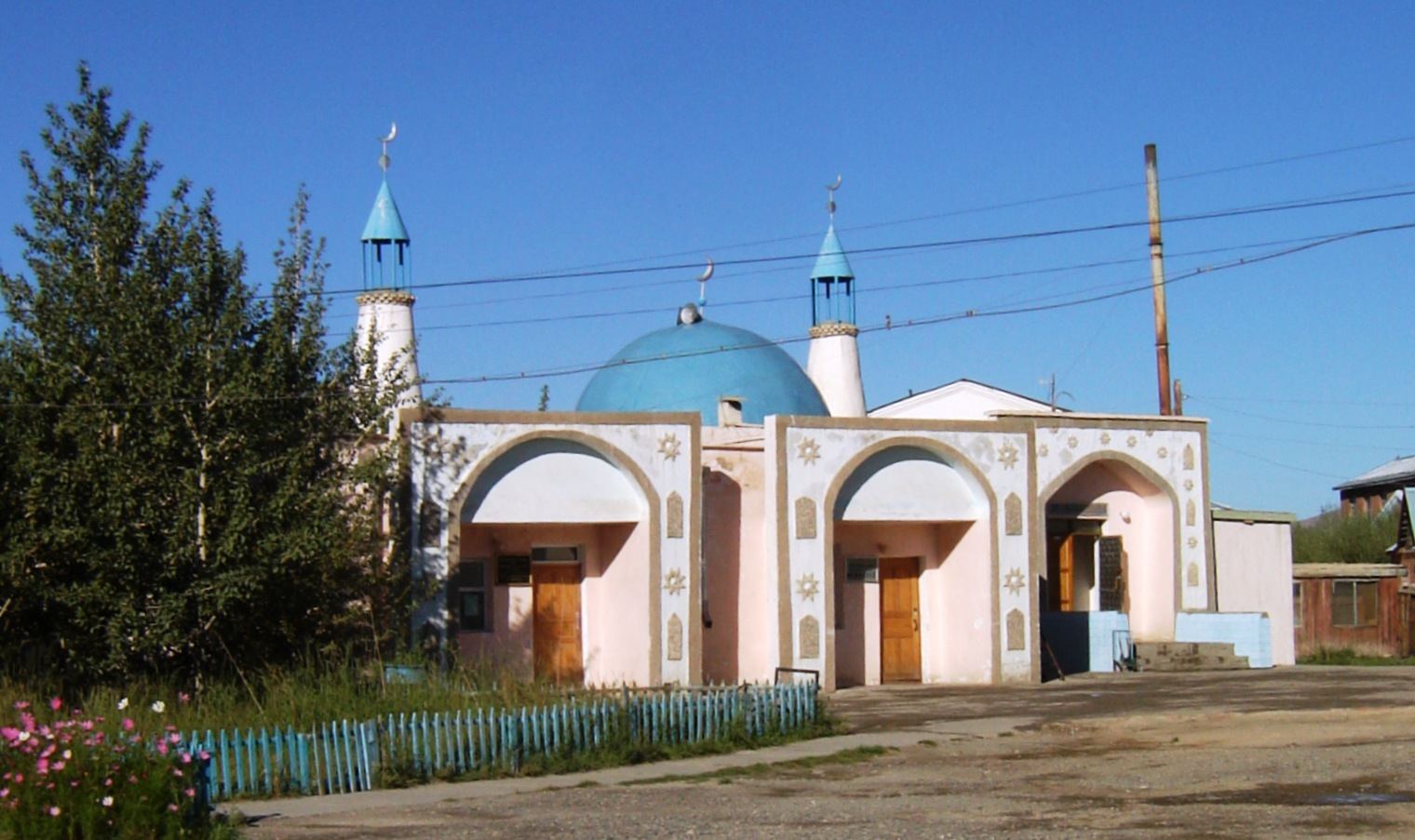 Picture of the central mosque in Ölgii